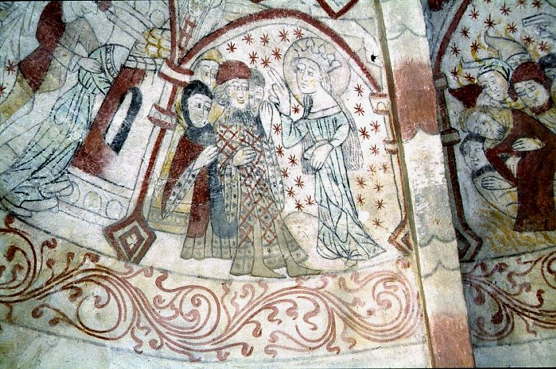 Bregninge Kirke (church) in Kalundborg Kommune